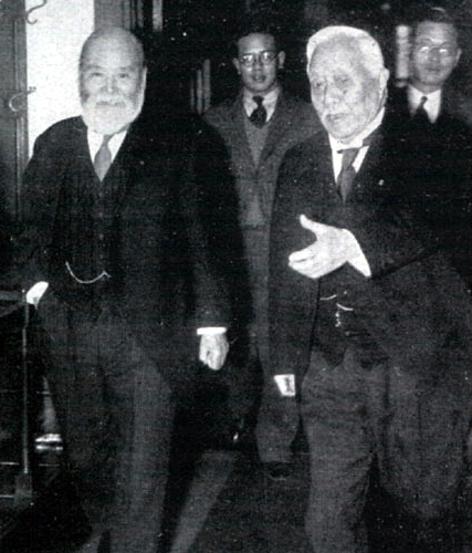 Japan’s Lord Keeper of the Privy Seal Makoto Saitō (内大臣・齋藤實, 1858–1936), visits his close friend, Finance Minister Korekiyo Takahashi (高橋是清, 1854–1936) at his official residence on 20 February 1936. Less than a week after this photograph was taken, both were assassinated by ultranationalistic Army officers in the February 26 Incident (二・二六事件).